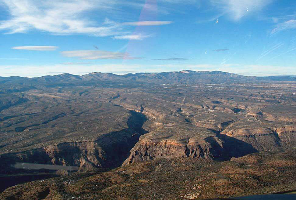 Aerial photo of the Pajarito Plateau in Northern New Mexico.